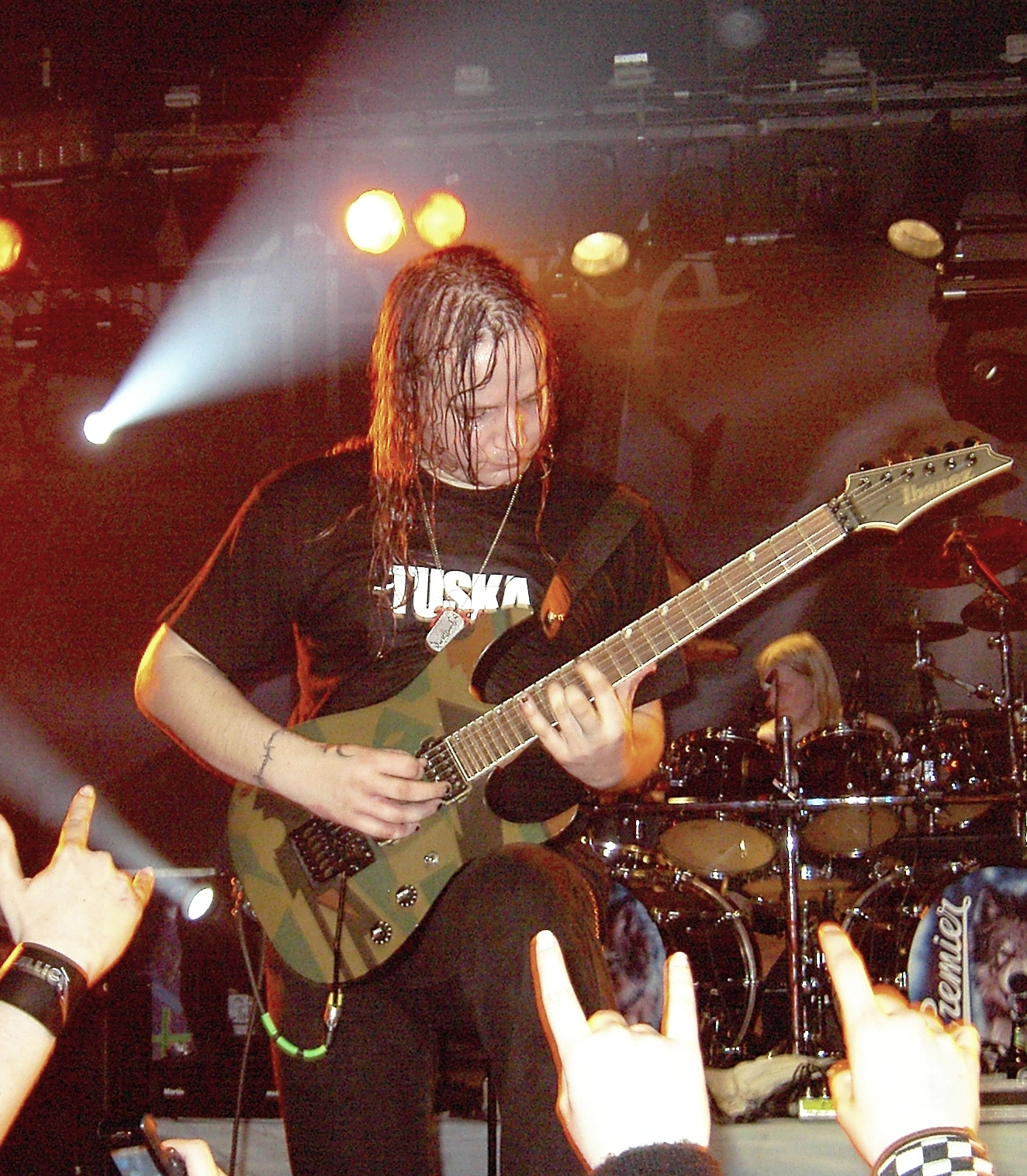 Jani Liimatainen (Sonata Arctica) live at Helmond, 28th April 2006